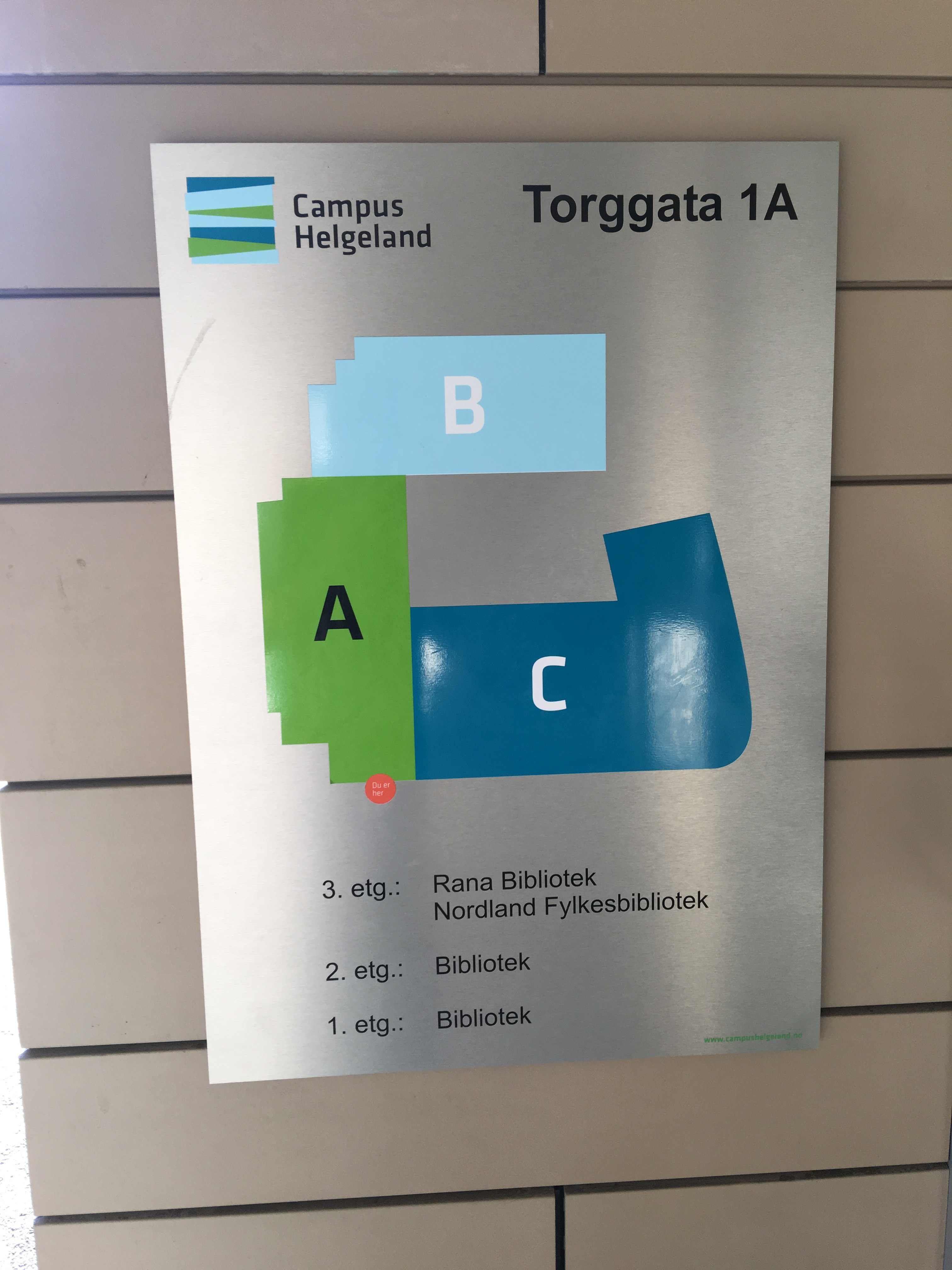 Torggata 1A, Mo i Rana, Norway: Wall display or board with map of buildings: Rana bibliotek (library), Nord universitet Campus Helgeland, etc.